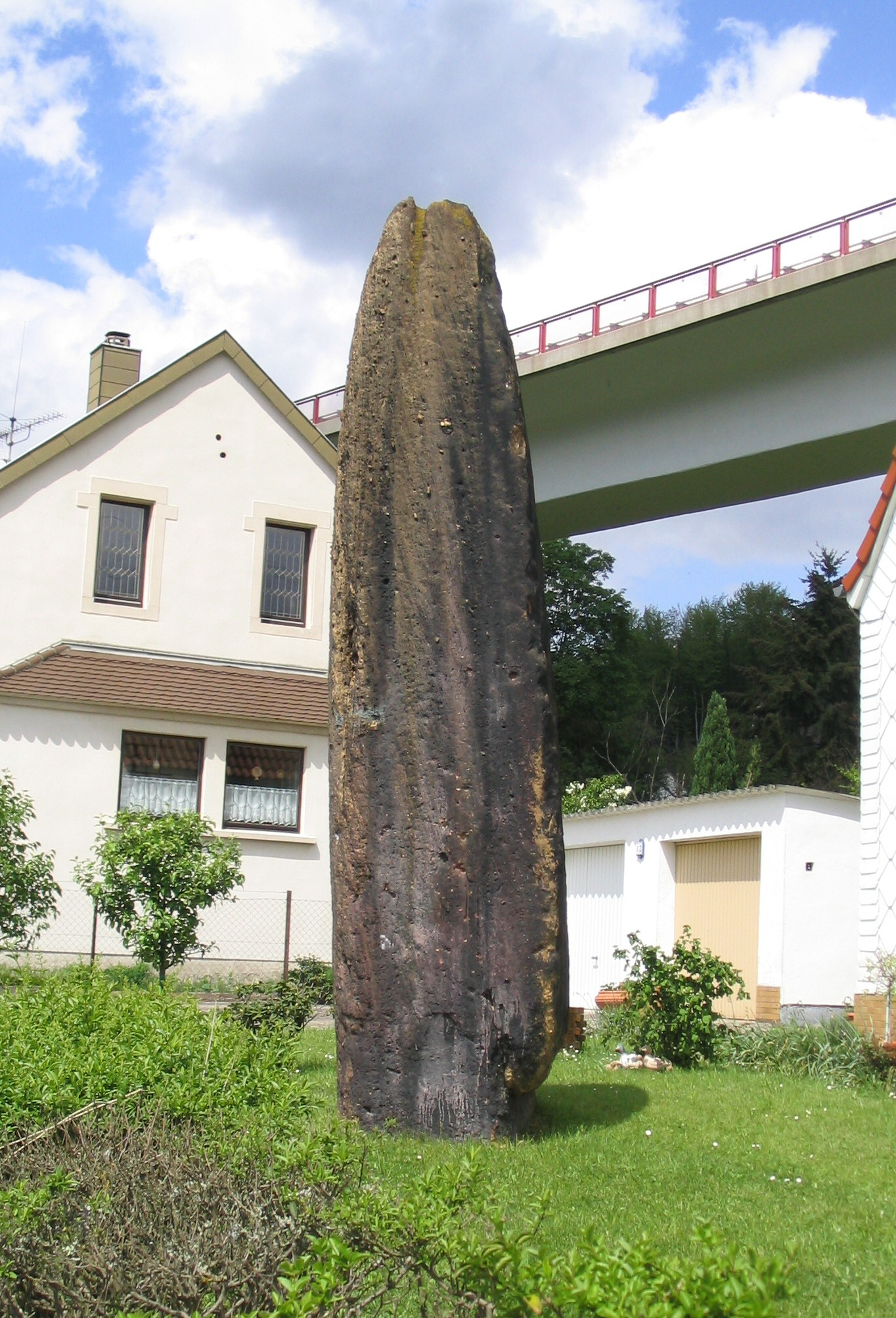 Description: Spellenstein in Rentrisch (St. Ingbert/Germany). A five meters tall menhir. Photographer: kh80 Date: 2005-05-08 License: GFDL and cc-by-sa/2.0/de